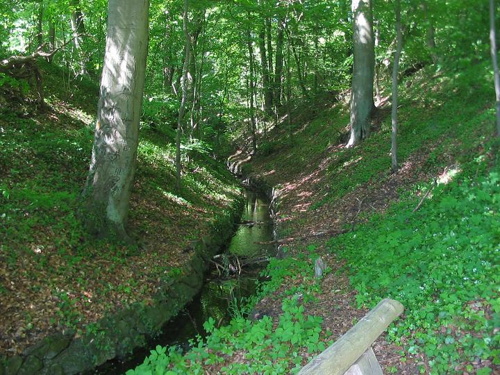 Nettelgraben (moat) nearby Kloster Chorin (cistercian monastery), connecting Parsteiner See with Ragöse (stream) → Finowkanal → Oder-Havel-Kanal → Oder River. The Parsteiner See is a finger lake (proglacial lake) in Germany, Brandenburg, District Barnim, and covers 10,03 km².